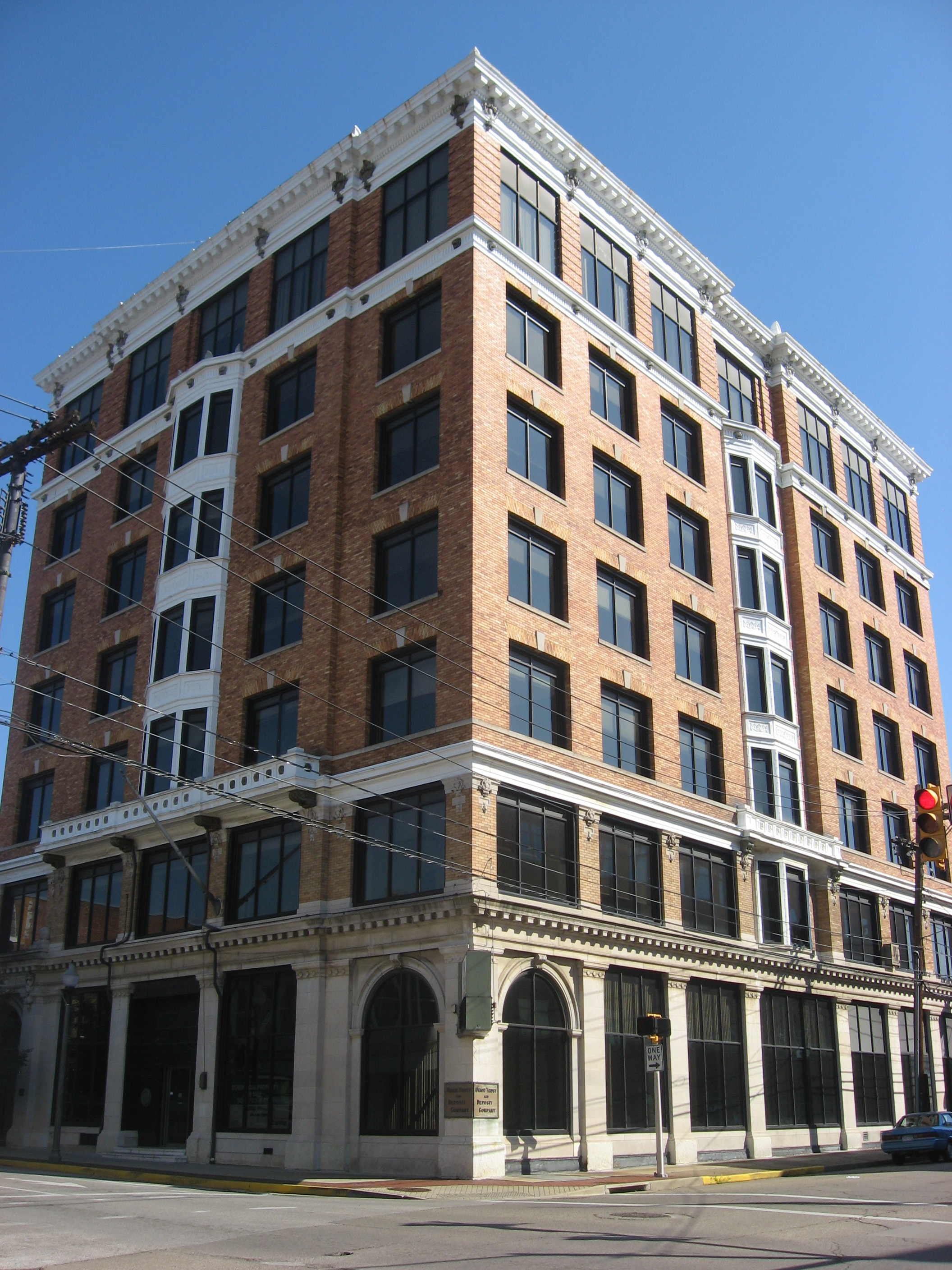 Front and western side of the Union Trust National Bank, located at 700 Market Street at the (West Virginia Route 618 intersection in Parkersburg, West Virginia, United States. Built in 1903, it is listed on the National Register of Historic Places.